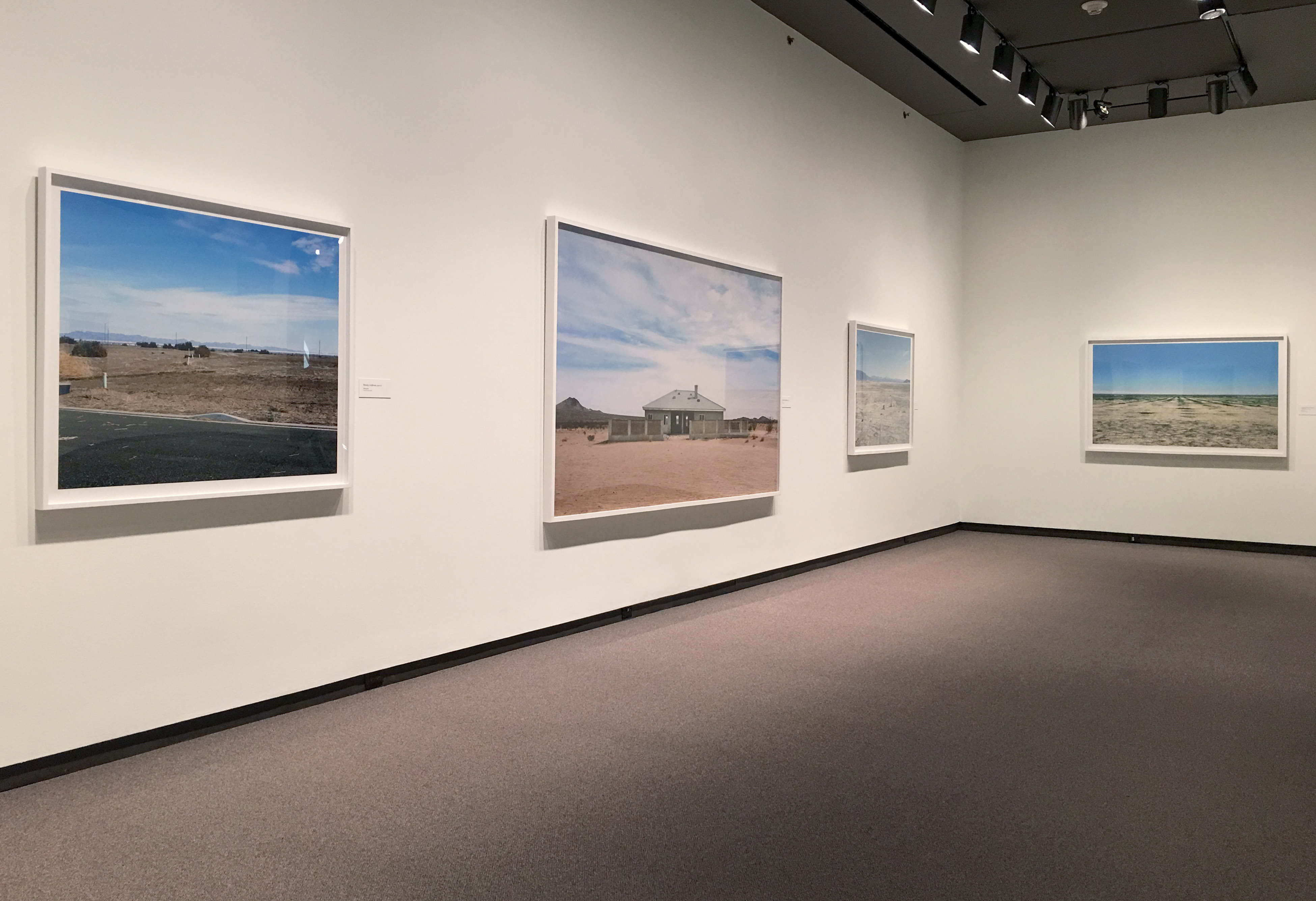 Amon Carter Museum - Anthony Hernandez - Discarded - wall 1